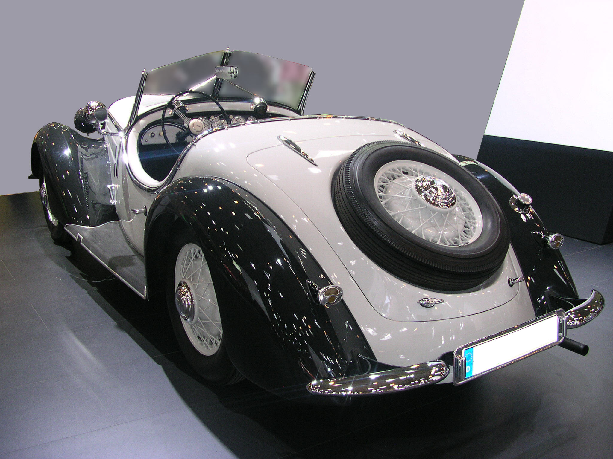 Essen Techno-Classica 2007, Roadster Wanderer W 25 K